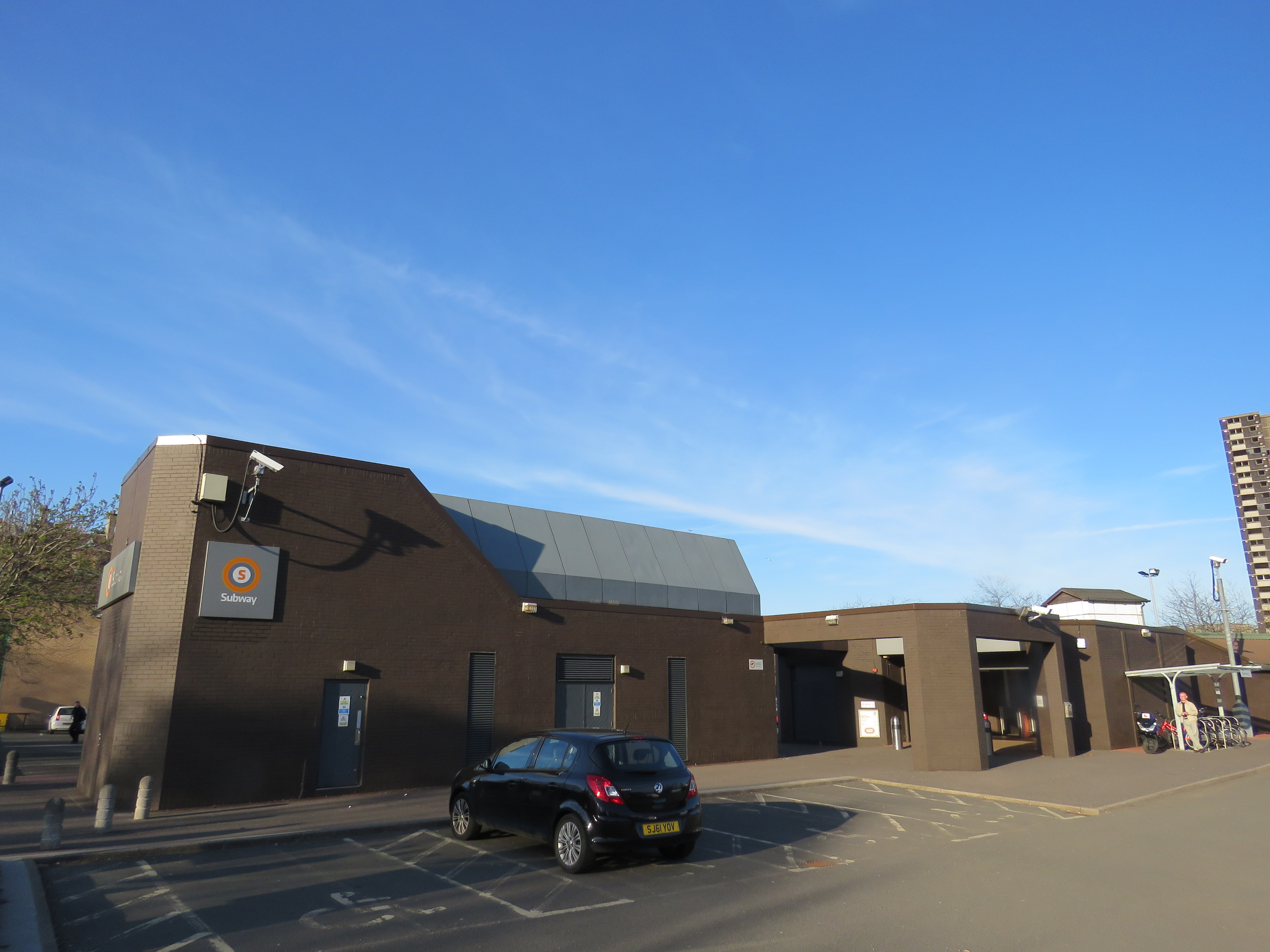 Station buildings and car park, Bridge Street subway station, Glasgow